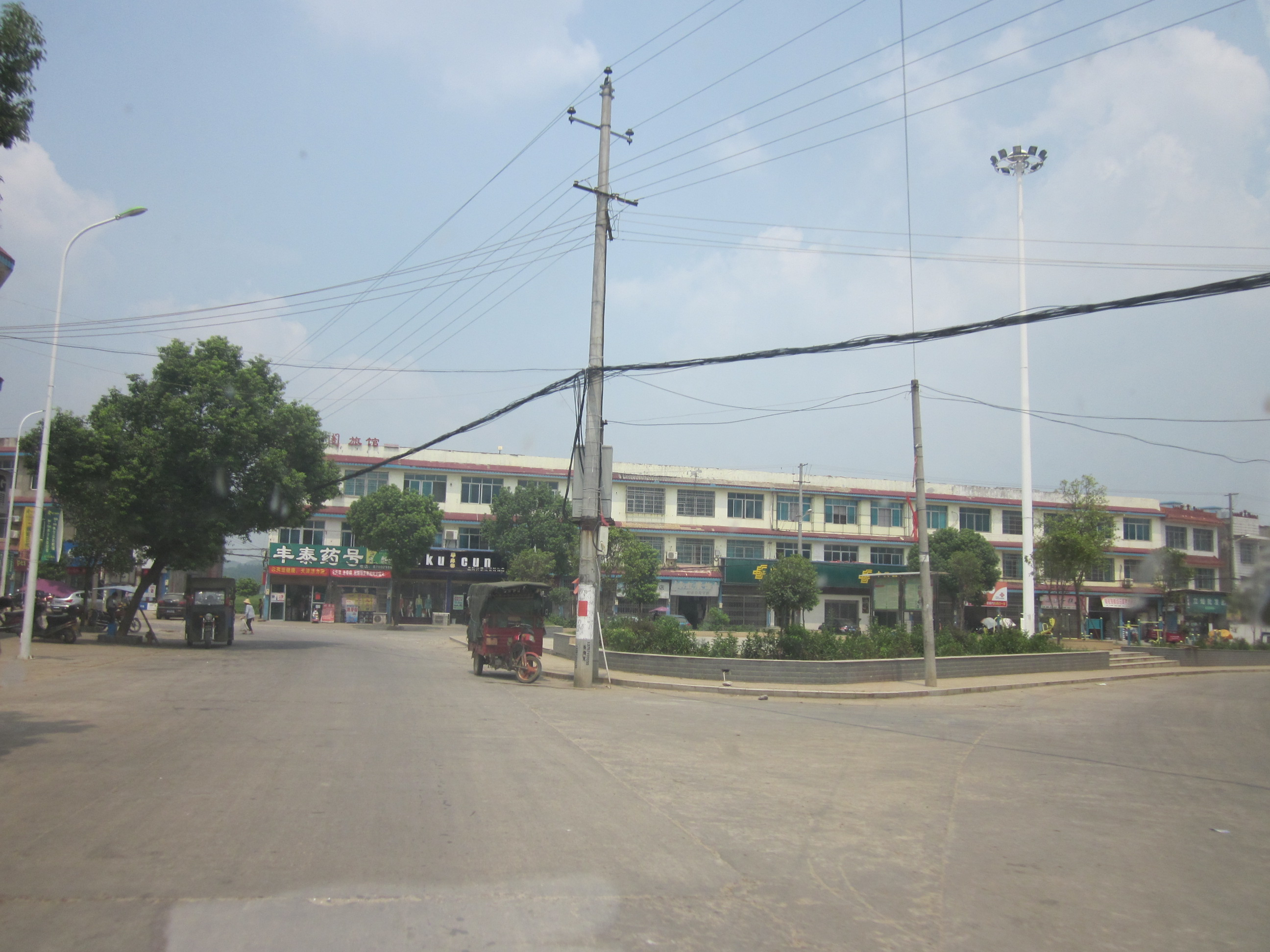 Datunying Township (simplified